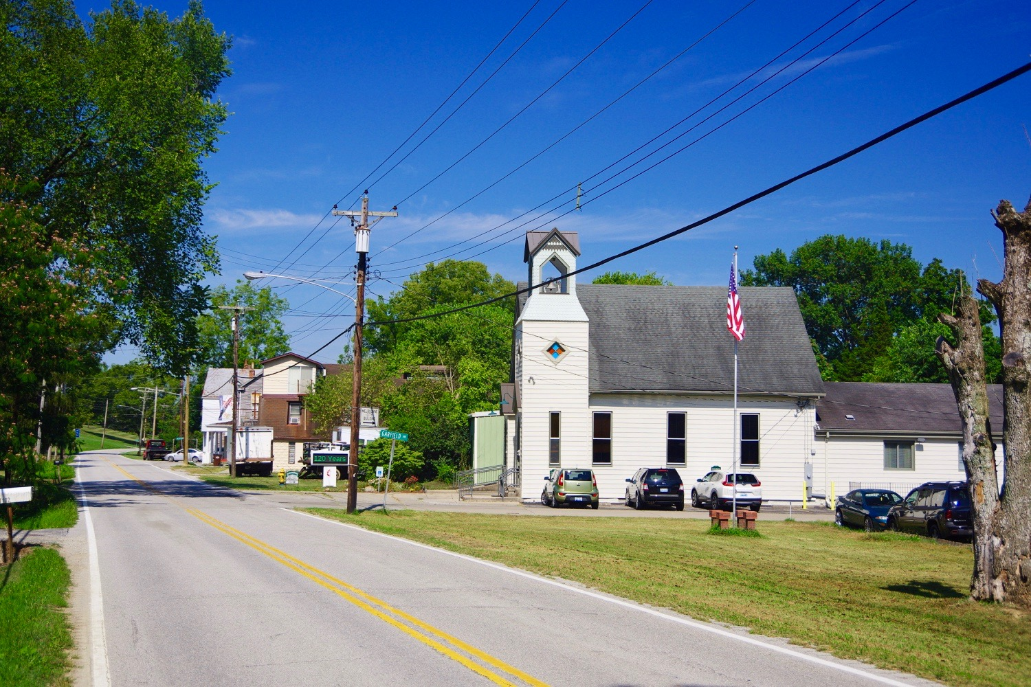 View along Mary Ingalls Highway (Kentucky Route 8) in Melbourne, Kentucky, United States.